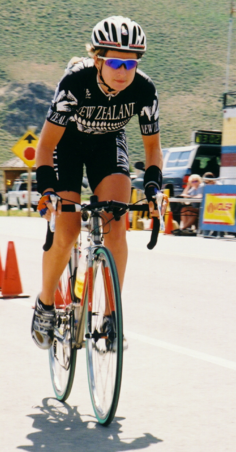 Sarah Ulmer starts out on the race course during the Stanley Time Trial (stage 3 of the 2002 Women's Challenge bicycle stage race).